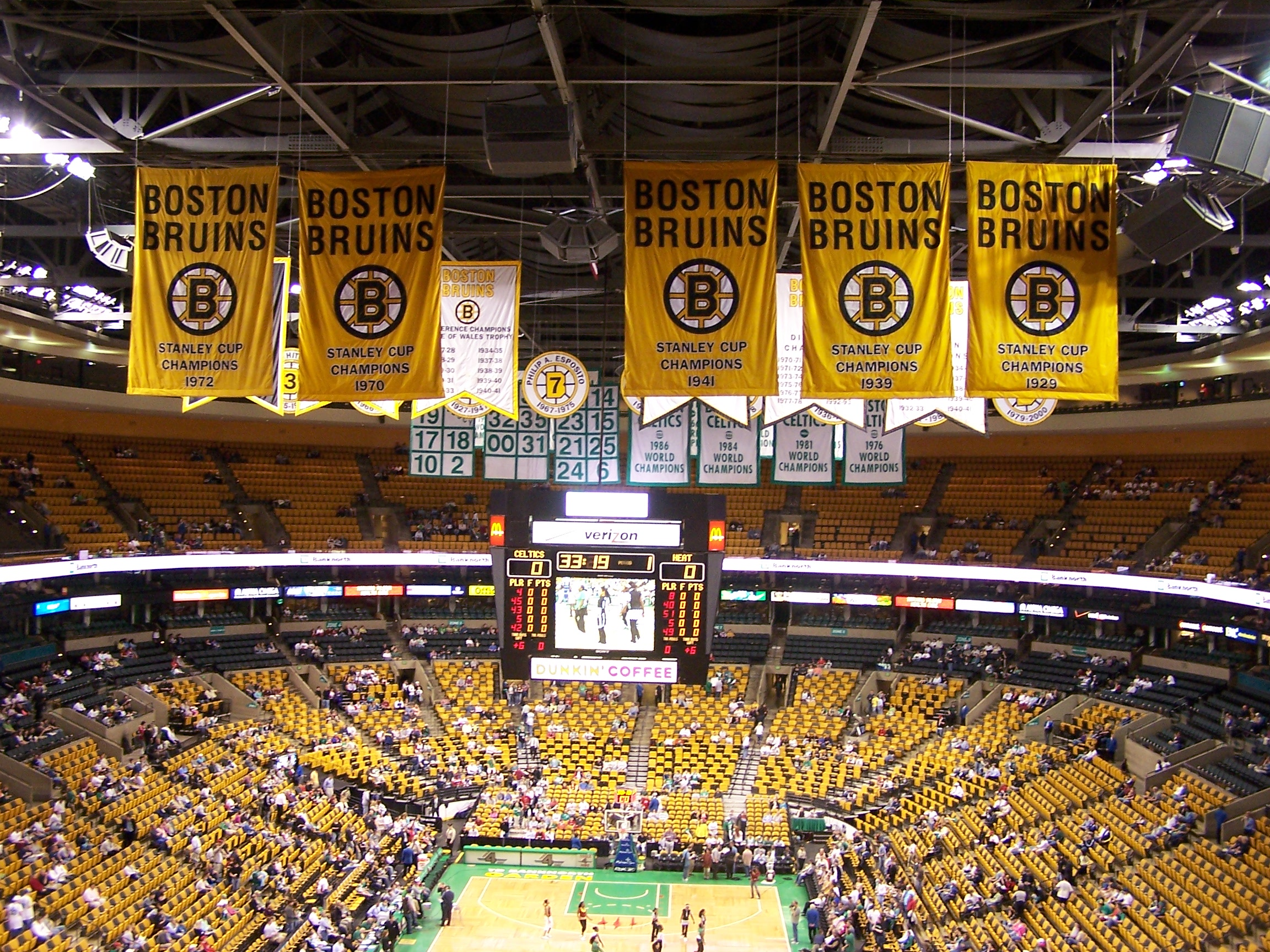 TD Garden with Boston Bruins banners. TD Garden is the home ground of the Boston Bruins (NHL) and the Boston Celtics (NBA).banknorth garden